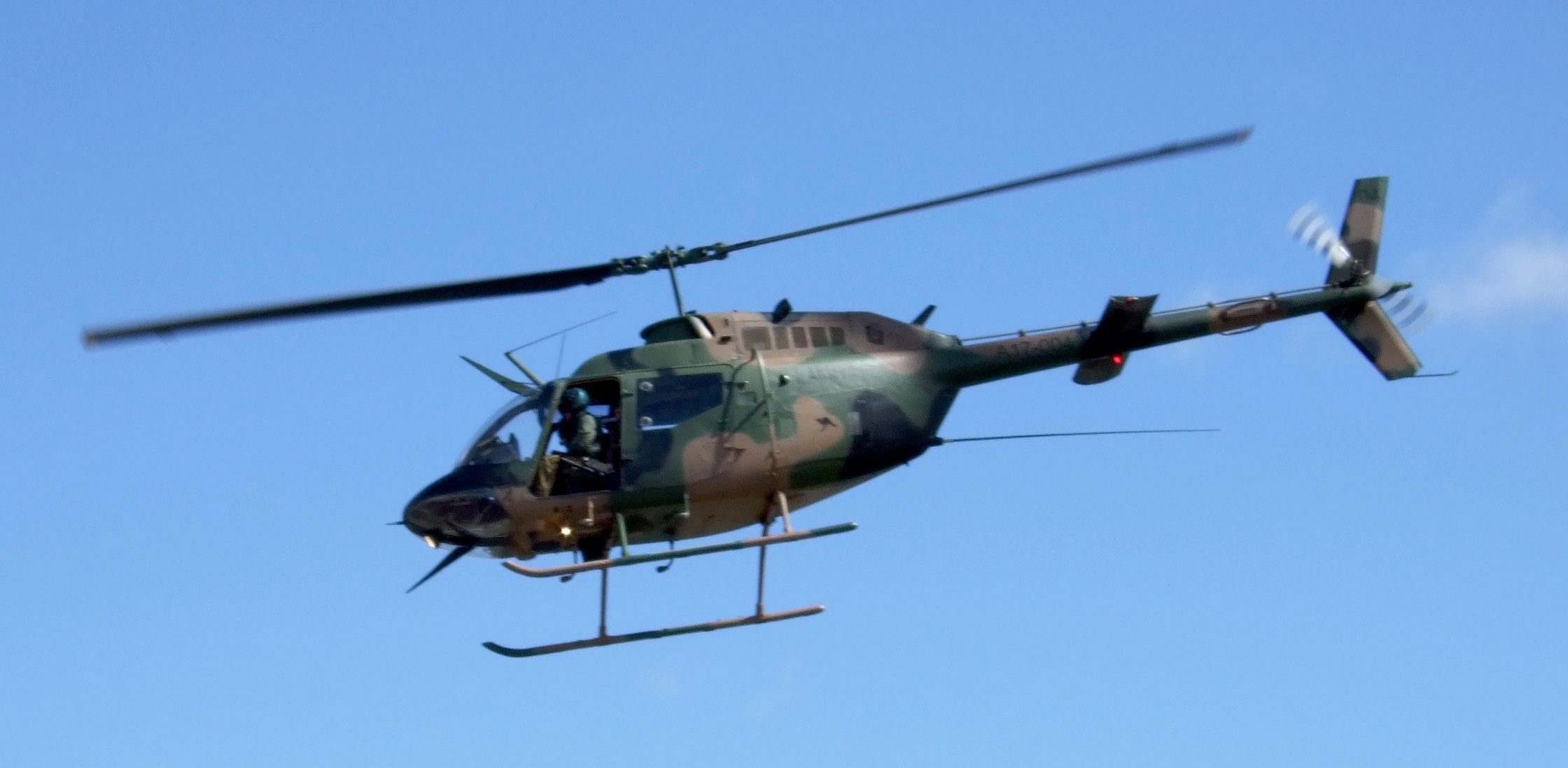 An Australian Army Kiowa helicopter